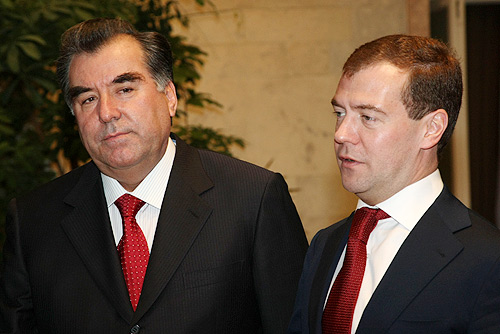 The Kremlin, Moscow. Dmitry Medvedev with President of Tajikistan Emomali Rakhmon.